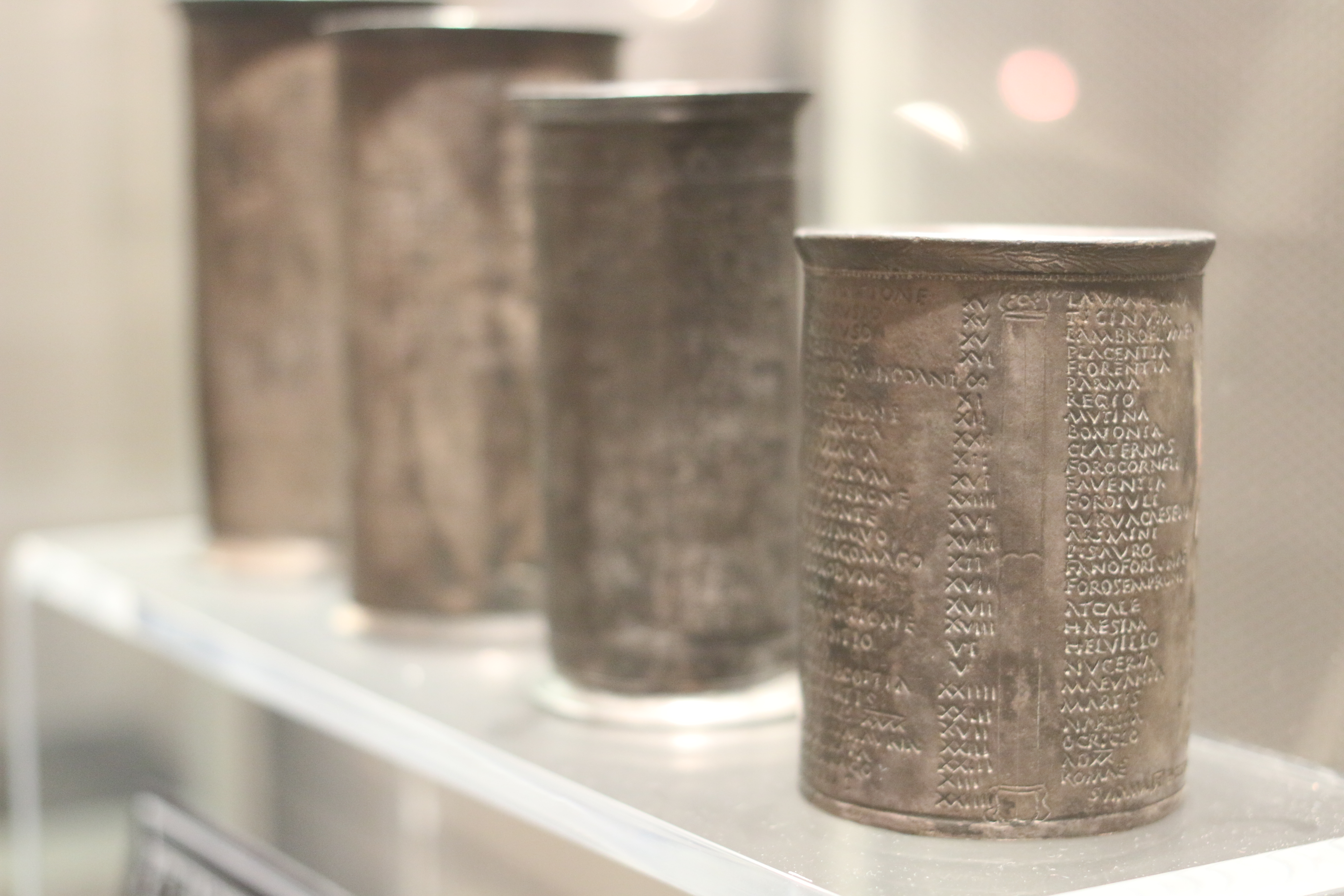 The four silver cups come from the rich votive deposit of Vicarello. Each bears an itinerary from Cadiz (Gades) to Rome, engraved with slight variations in several columns. The cylindrical form, typical of drinking vessels, also recalls mile-markers placed at the sides of the consular roads; the objects thus have the twin function of indispensable element of a traveller's luggage, and at the same time a safe guide during the voyage, thanks to the indication of all the post-stations and the distance of each stage. The cups, dating to the 3rd century B.C., are amongst the earliest and most precise epigraphic testimonies of the Roman road system and show that the fame of the springs' health-giving properties had reached even the farthest parts of the empire. Also from Vicarello come other silver vases, some of which bear engraved dedications to the health-giving divinities of the place (Apollo, the Nymphs, Sylvanus). Some of the objects from the votive deposit of Vicarello went to the Vatican Museums, others to the Museo Nazionale Romano, while others again were dispersed over the years. (text from museum placard)